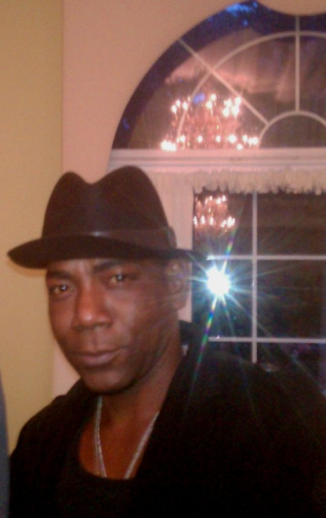 Photografy retired in festival of city Nova Iorque in EUA - There is no link, the image was taken from photographic camera.